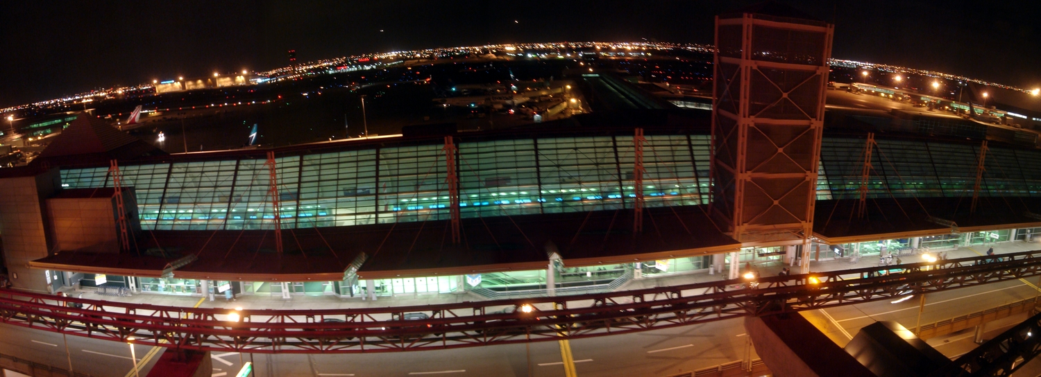 Terminal 3 overview